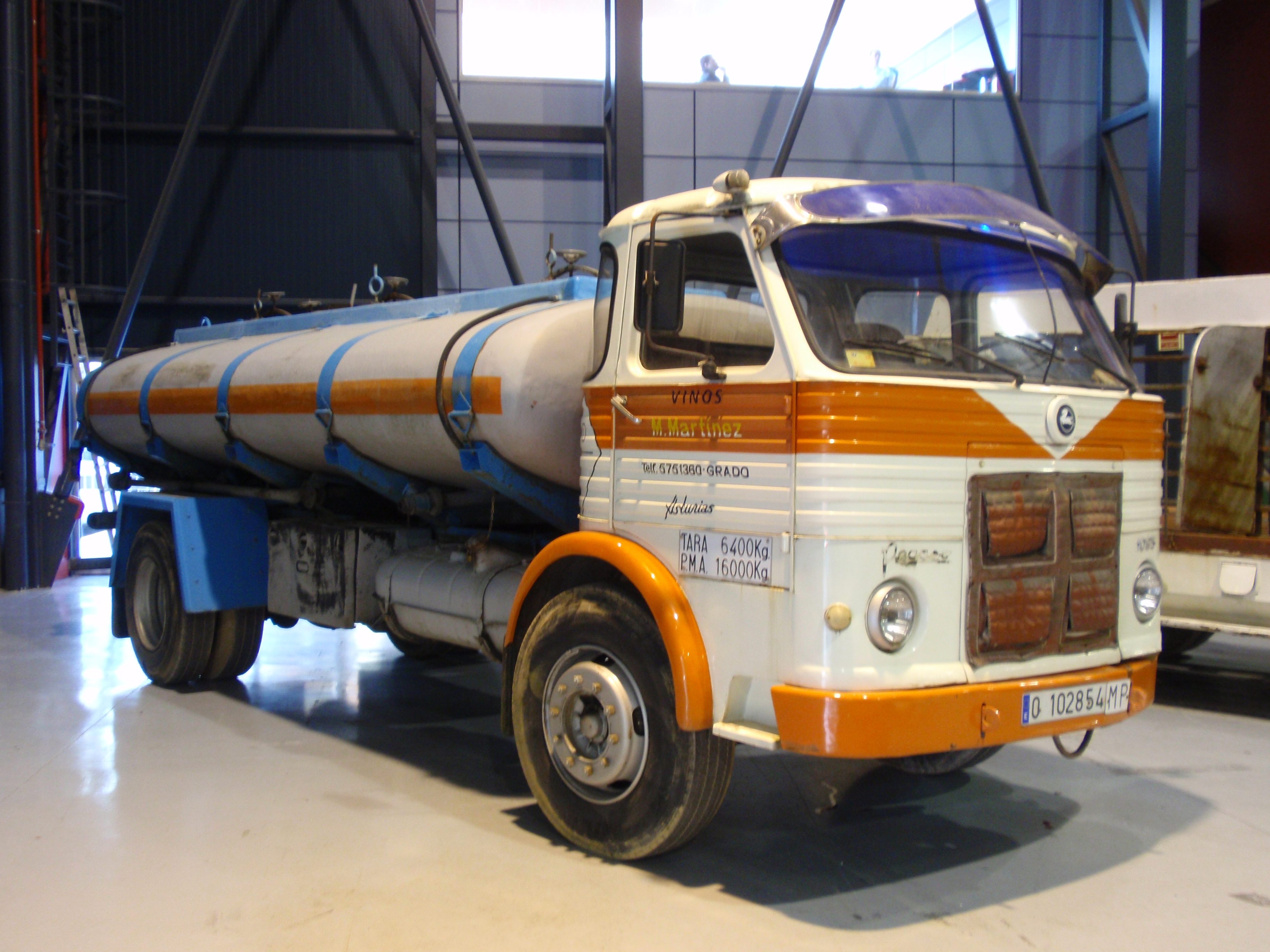 Pegaso truck in a museum